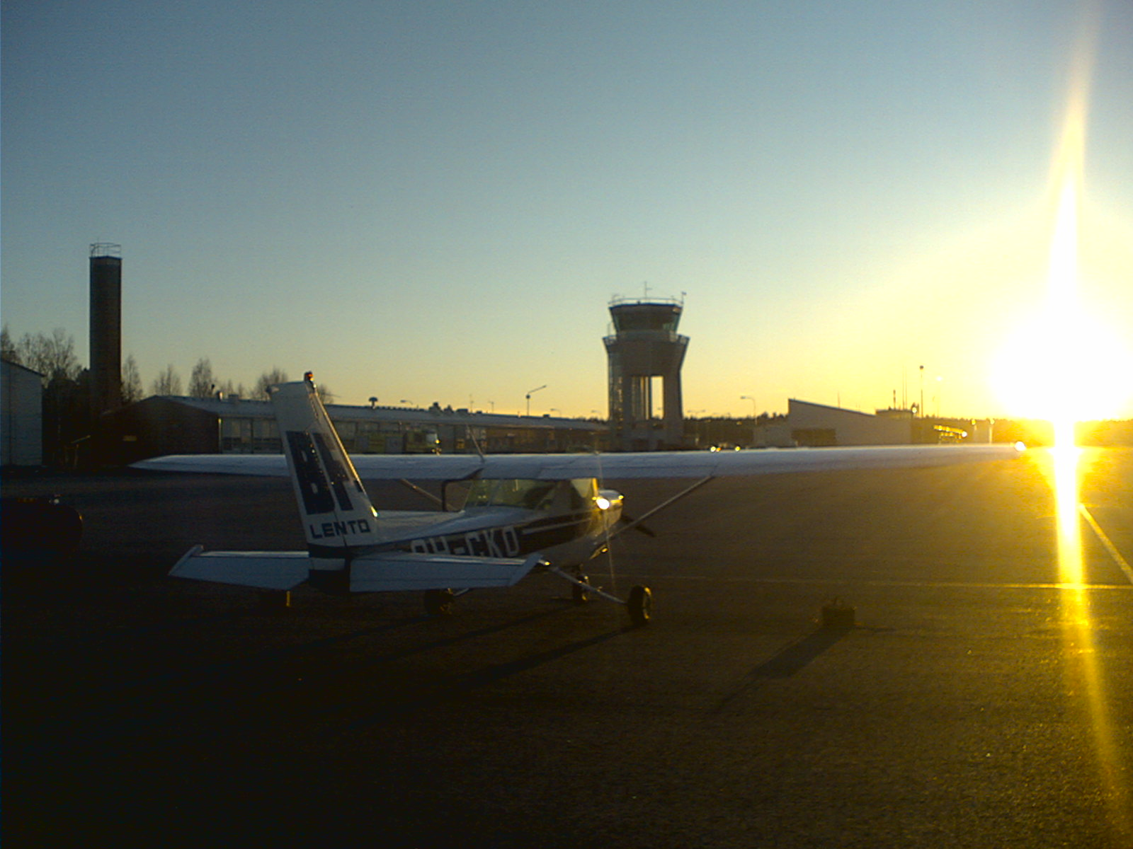 Cessna 152 II aircraft (OH-CKO) at Joensuu Airport in Joensuu, Finland